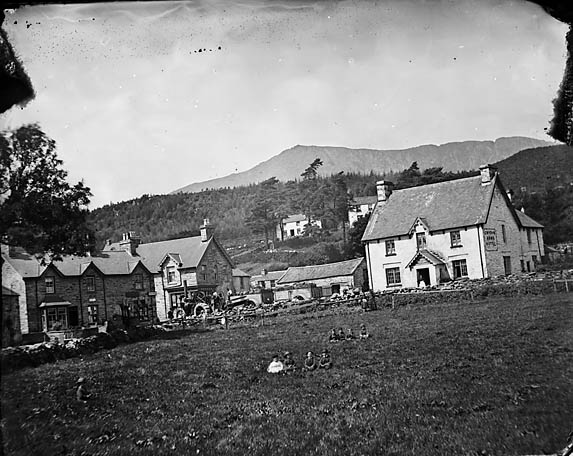 1 negative : glass, wet collodion, b&w ; 10 x 12.5 cm.